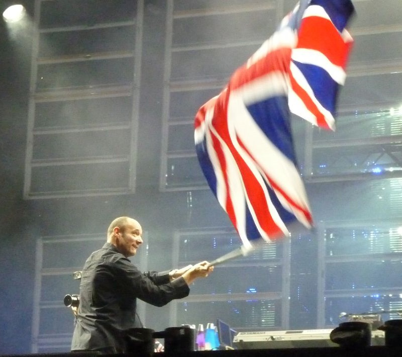 Paul "Wix" Wickens waving the Union Jack in Dublin's RDS Arena